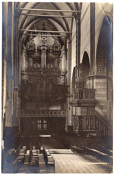 Black and white photograph of the Dome Cathedral Pipe Organ in Riga, Latvia.